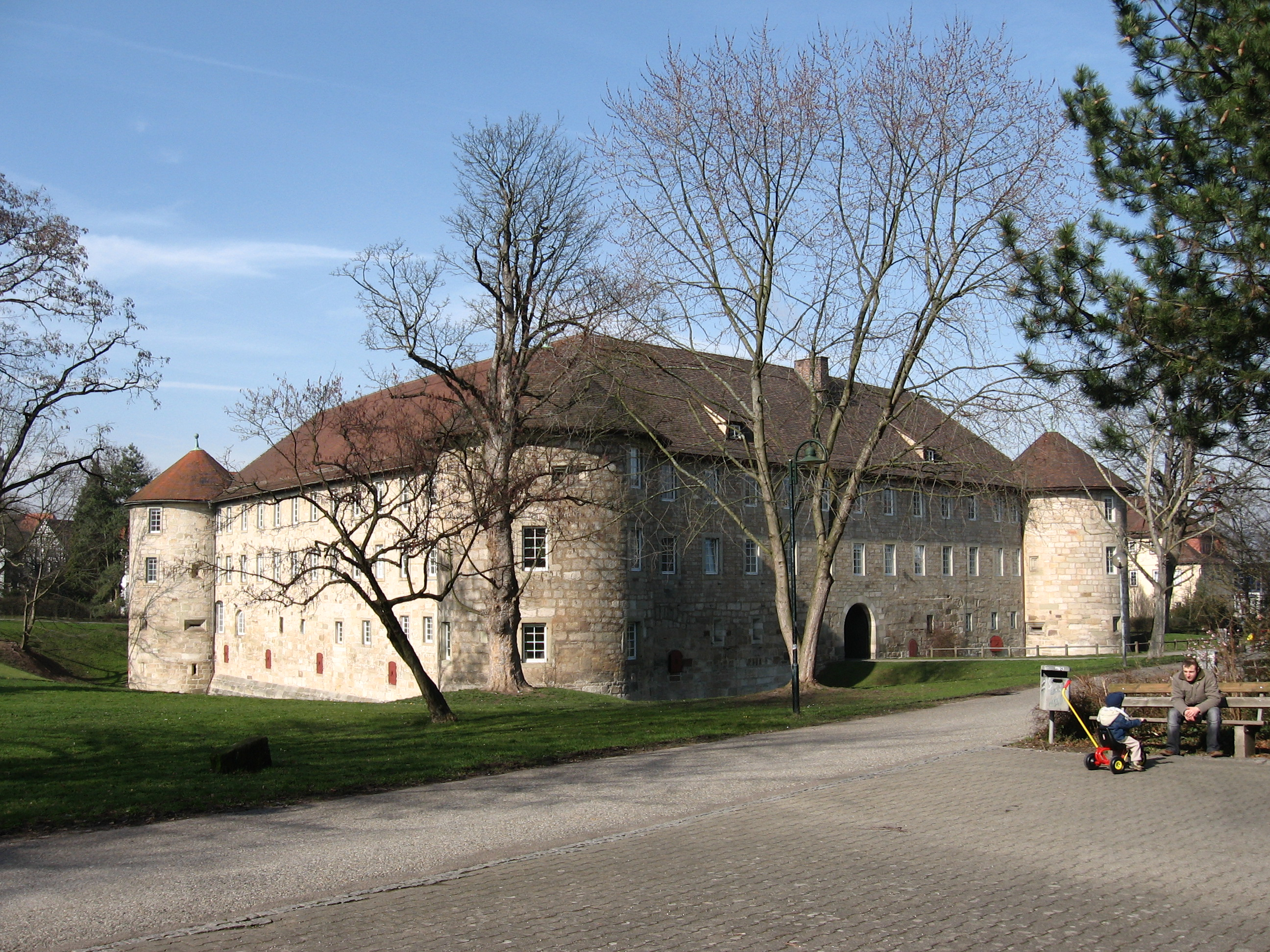 Schorndorf Castle, Germany